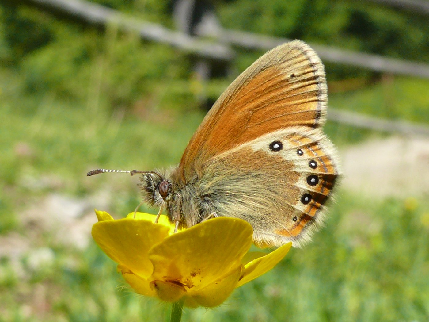 Alpine Heath ssp. darwiania, South Tyrol, Lüsen